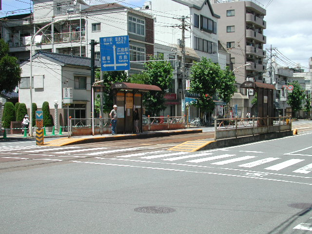 Hiroshima Electric Railway funairi Kawaguchicho Station